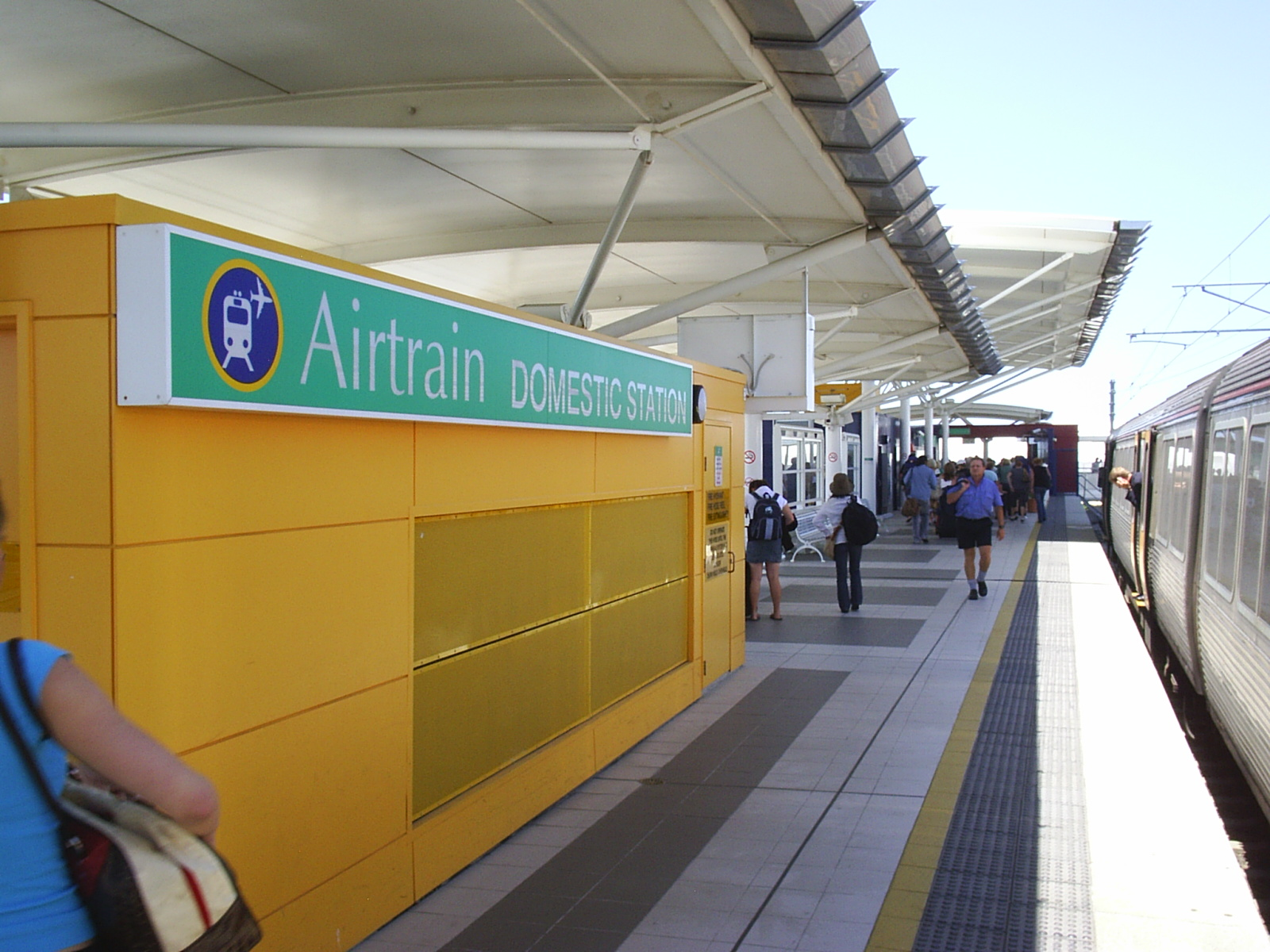 QR Airtrain Domestic Terminal Station. Taken on 01/12/06 by Qld matt 12:17, 1 December 2006 (UTC)